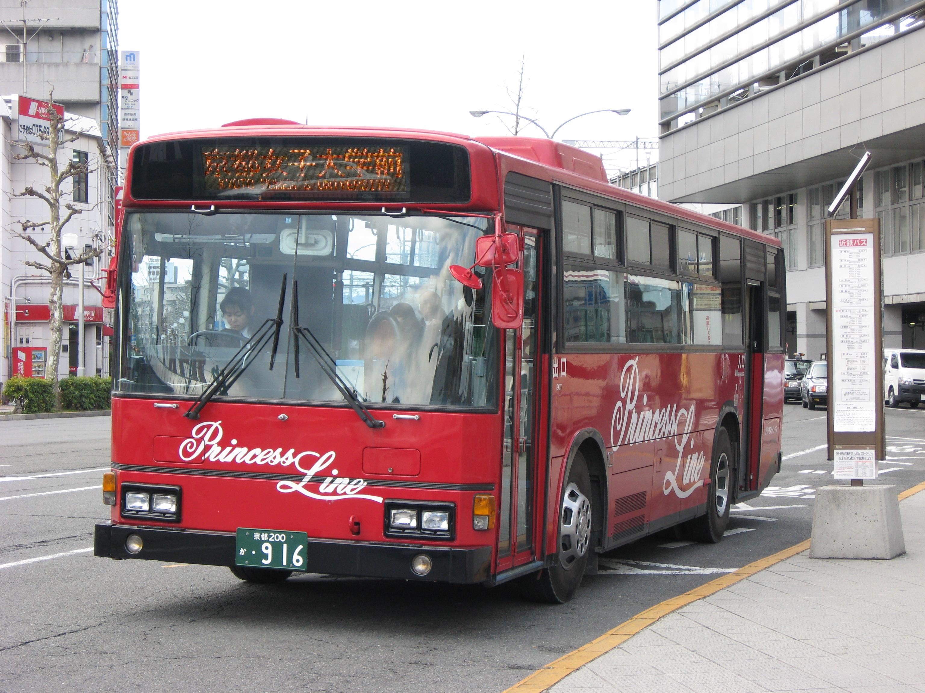 Princess Line 0916 (Kyoto 200 Ka 0916), by Kyoto Station Hachijo Entrance.